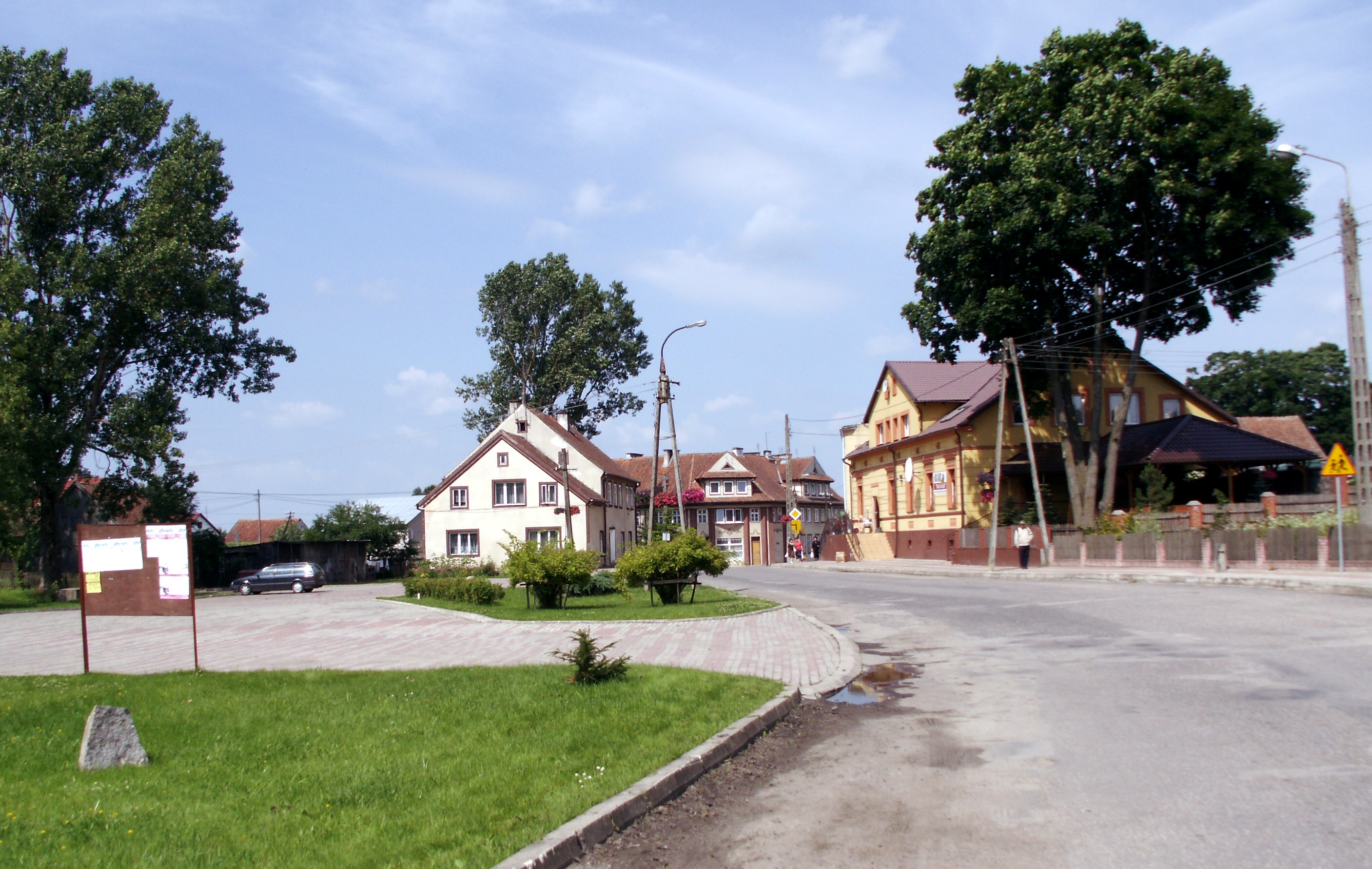 Żytkiejmy